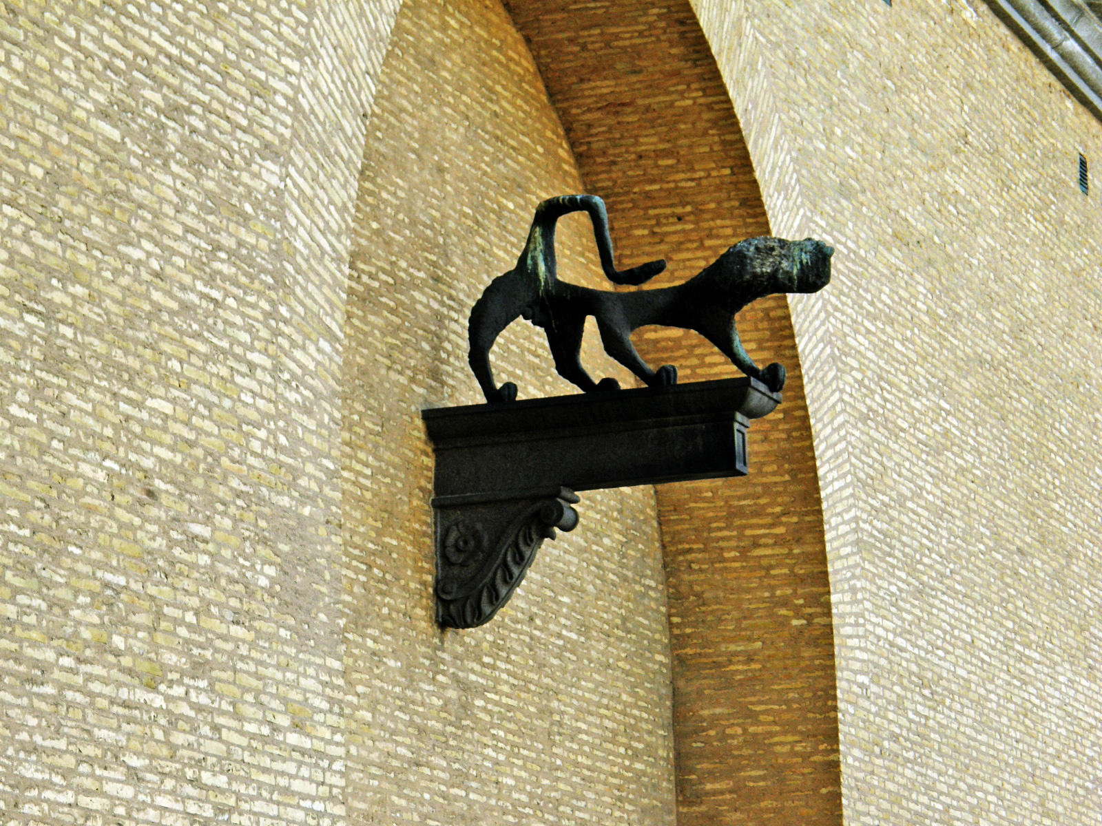 Lion, by Palle Pernevi, sculpture in bronze, 1956. One out of three, on the facade of Göteborgs Konsthall, Gothenburg, Sweden.